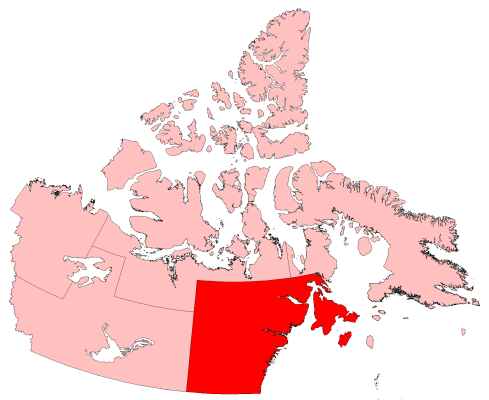 Keewatin Region, Northwest Territories, Canada (as existing before 1999)